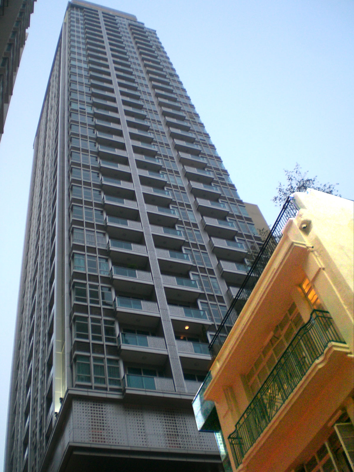 嘉薈軒, 灣仔'船街, Ship Street, Wan Chai, Hong Kong